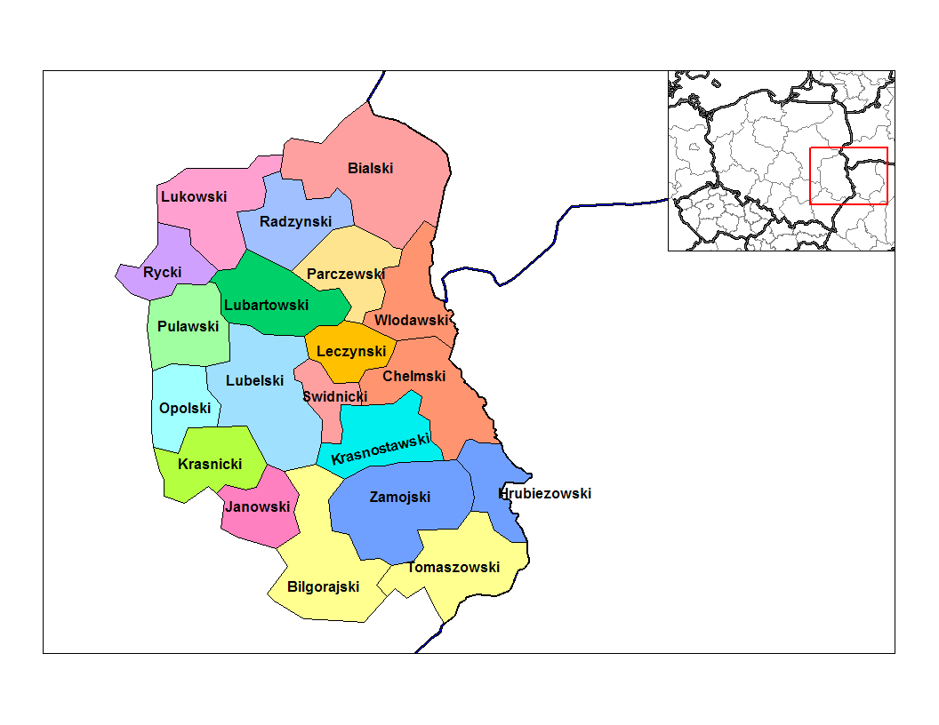 Map of the "powiat ziemski" (land counties) without "powiat grodzki" (Independent cities) of Lublin voivodeship (województwo lubelskie) in Poland. Created by Rarelibra 22:06, 2 January 2007 (UTC) for public domain use, using MapInfo Professional v8.5 and various mapping resources.